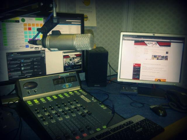 A picture of the producer view in Studio 1 of Demon FM (DMU Queens Building)